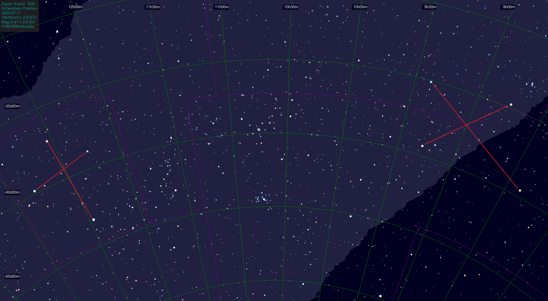 Depiction of Southern Cross and "False Cross" asterisms